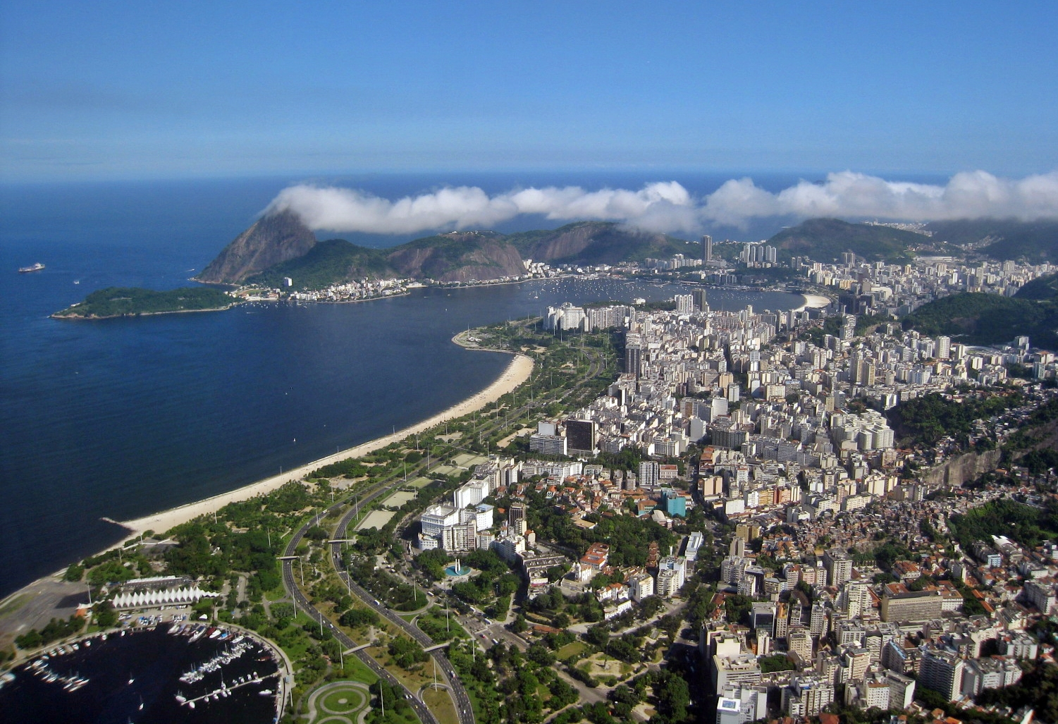 Aerial view of the Gloria and Flamengo neighbourhoods of Rio de Janeiro, Brazil